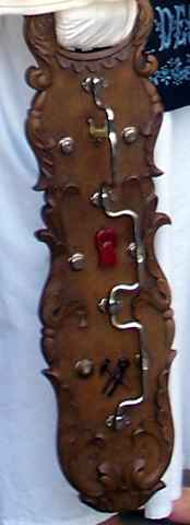 Desciption: Troccola (Taranto) Photographer: --Asia Date: 15.4.2006